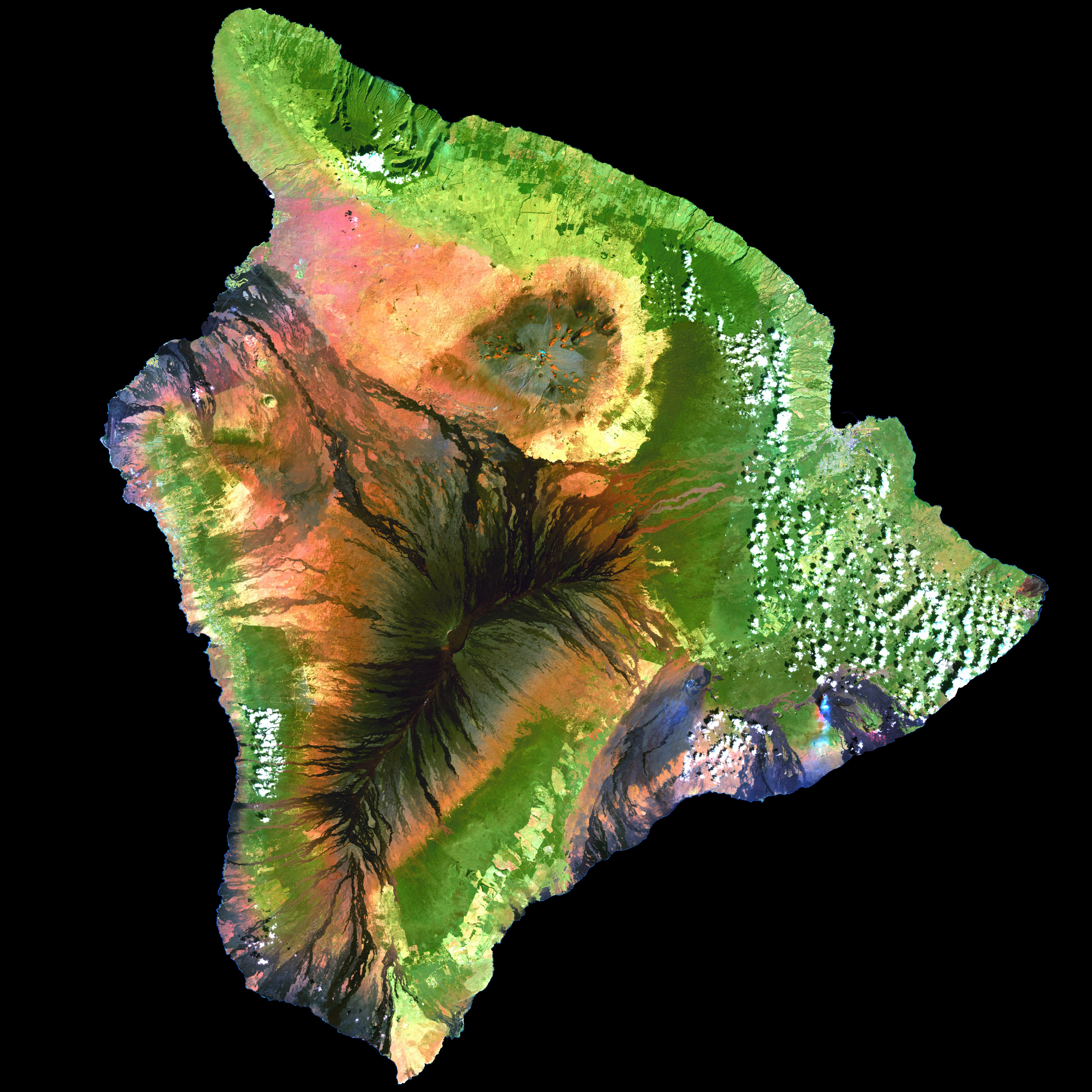 This simulated true-color image of the island of Hawai'i was derived from data gathered by the Enhanced Thematic Mapper plus (ETM+) on the Landsat 7 satellite between 1999 and 2001.